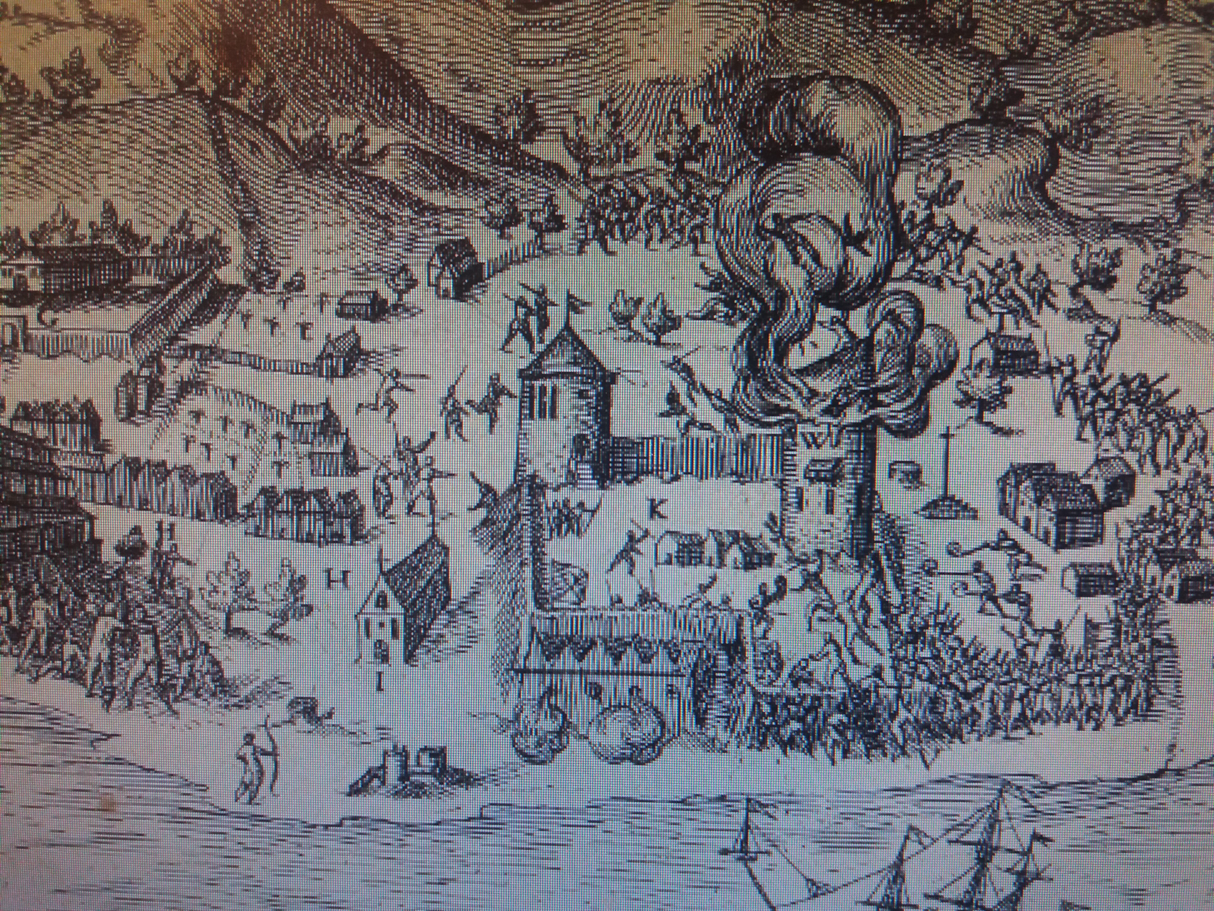 Fortaleza dos Reys Magos, Tidore, under Dutch attack in 1605; illustration from India Oriental (1607).